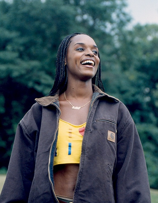 N'Bushe Wright On the set of His & Hers in 1996